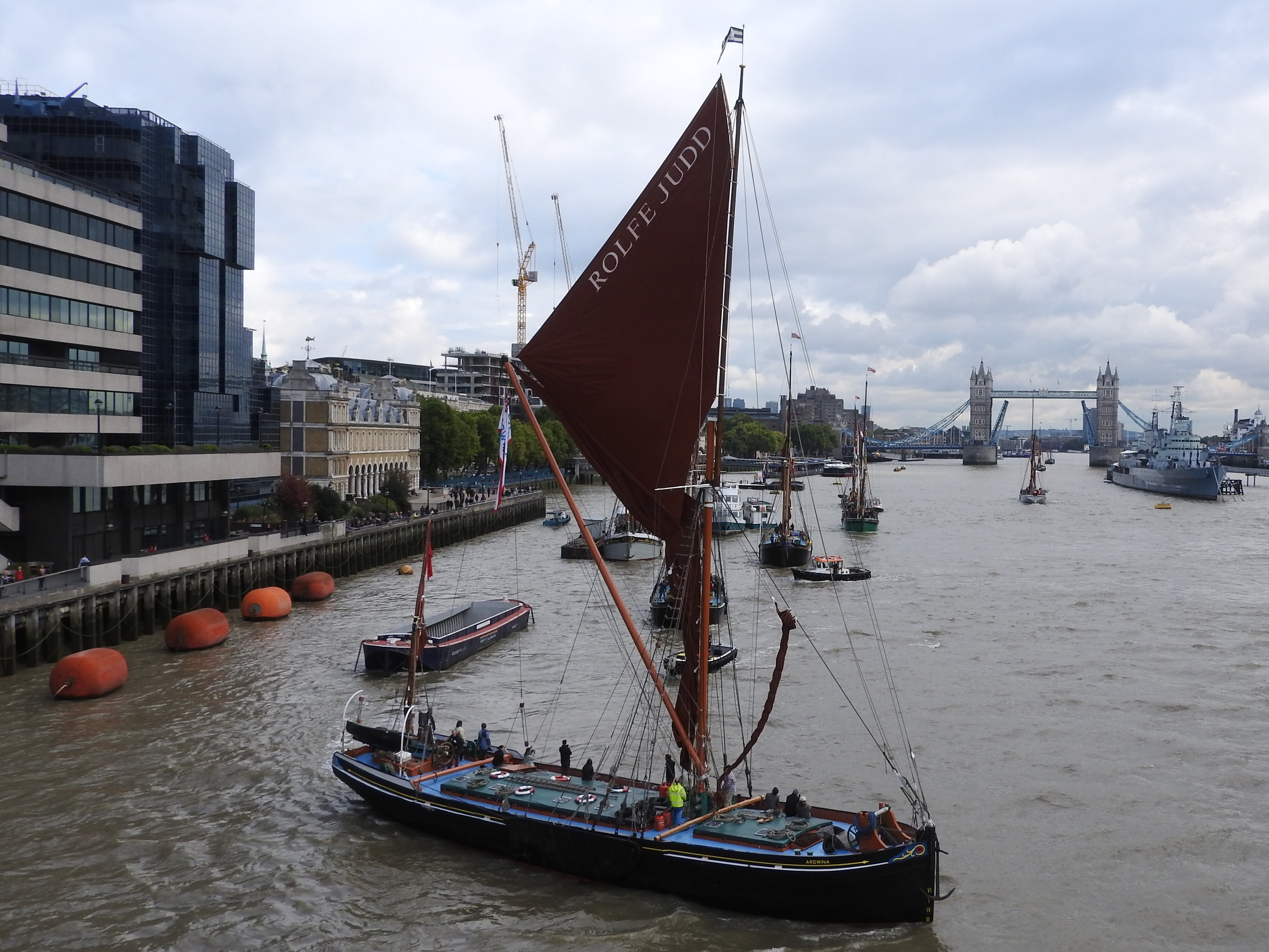 The Thames barge parade 2017. 16 September 2017. Ten barges sailed from West India Docks to Tower Bridge. At noon (BST), Tower Bridge opened and the barges paraded in line into the Pool of London, where they held position against the ebbing tide until 12.45 when the bridge reopened and barges turned and made out to South Quays. Sailing back under the bridge